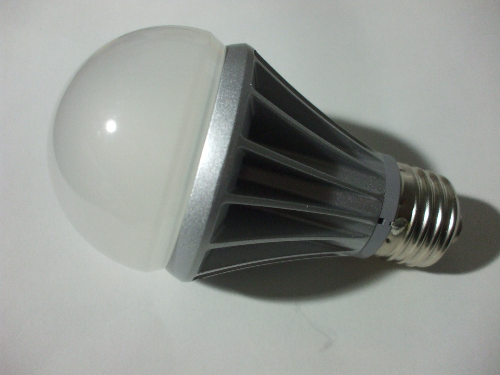 TOSHIBA LIGHTING & TECHNOLOGY's LED bulbs "LEL-AW6L/2". (side view)